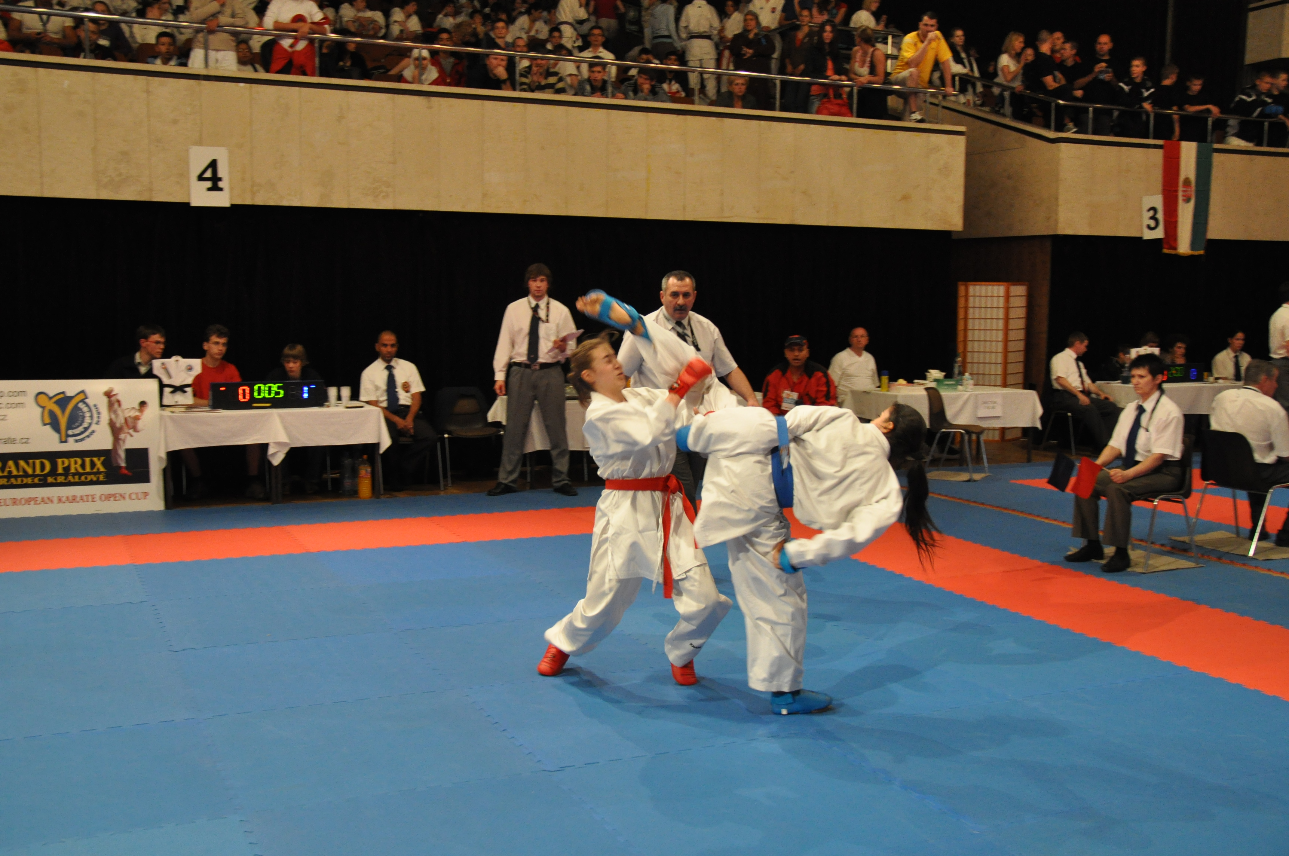 foto of Grand Prix Hradec Králové